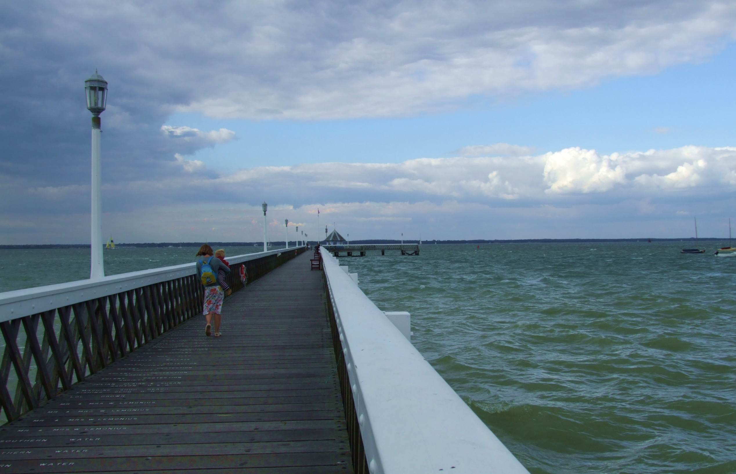 Yarmouth Pier, built in 1876, the longest timber pier in England which is still open to the public. Yarmouth, Isle of Wight, UNITED KINGDOM